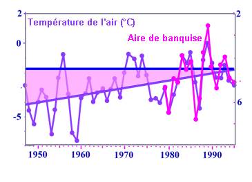 temperature and pack ice area - the scale for the ice is inverted to demonstrate the correlation - the horizontal line is the freezing point - the oblique line the average of the temperature - in 1995 the temperature reached the freezing point Uwe Kils.